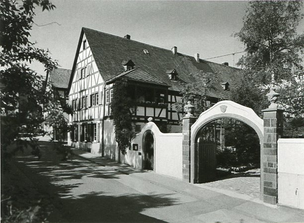 Burghof of 1654 in Mülheim-Kärlich. Mainbuilding and Entrance.